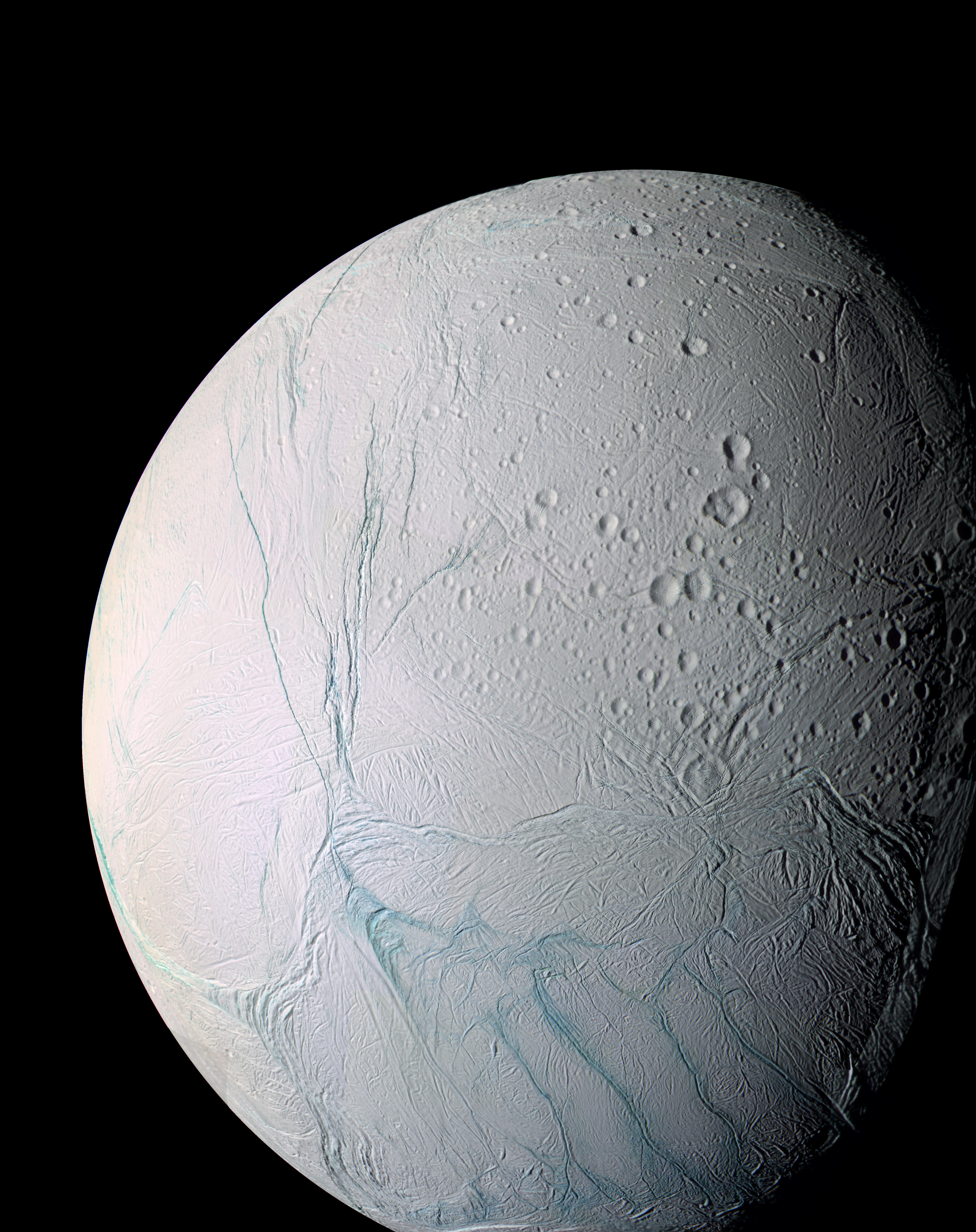 A masterpiece of deep time and wrenching gravity, the tortured surface of Saturn's moon Enceladus and its fascinating ongoing geologic activity tell the story of the ancient and present struggles of one tiny world. This is a story that is recounted by imaging scientists in a paper published in the journal Science on March 10, 2006. The enhanced color view of Enceladus seen here is largely of the southern hemisphere and includes the south polar terrain at the bottom of the image. Ancient craters remain somewhat pristine in some locales, but have clearly relaxed in others. Northward-trending fractures, likely caused by a change in the moon's rate of rotation and the consequent flattening of the moon's shape, rip across the southern hemisphere. The south polar terrain is marked by a striking set of `blue' fractures and encircled by a conspicuous and continuous chain of folds and ridges, testament to the forces within Enceladus that have yet to be silenced. The mosaic was created from 21 false-color frames taken during the Cassini spacecraft's close approaches to Enceladus on March 9 and July 14, 2005. Images taken using filters sensitive to ultraviolet, visible and infrared light (spanning wavelengths from 338 to 930 nanometers) were combined to create the individual frames. The mosaic is an orthographic projection centered at 46.8 degrees south latitude, 188 degrees west longitude, and has an image scale of 67 meters (220 feet) per pixel. The original images ranged in resolution from 67 meters per pixel to 350 meters (1,150 feet) per pixel and were taken at distances ranging from 11,100 to 61,300 kilometers (6,900 to miles) from Enceladus.